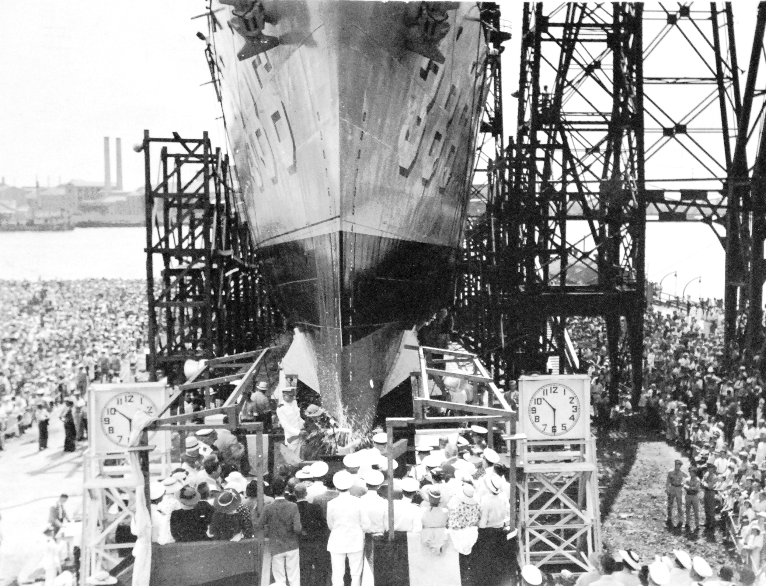 Lot 5423-6: Launching of USS Bagley (DD 386) at Norfolk Navy Shipyard, Norfolk, Virginia, September 3, 1936. Sponsor was Miss Bella Worth Bagley and is christening the destroyer. Collection of Secretary of the Navy Josephus Daniels. (7/24/2015).